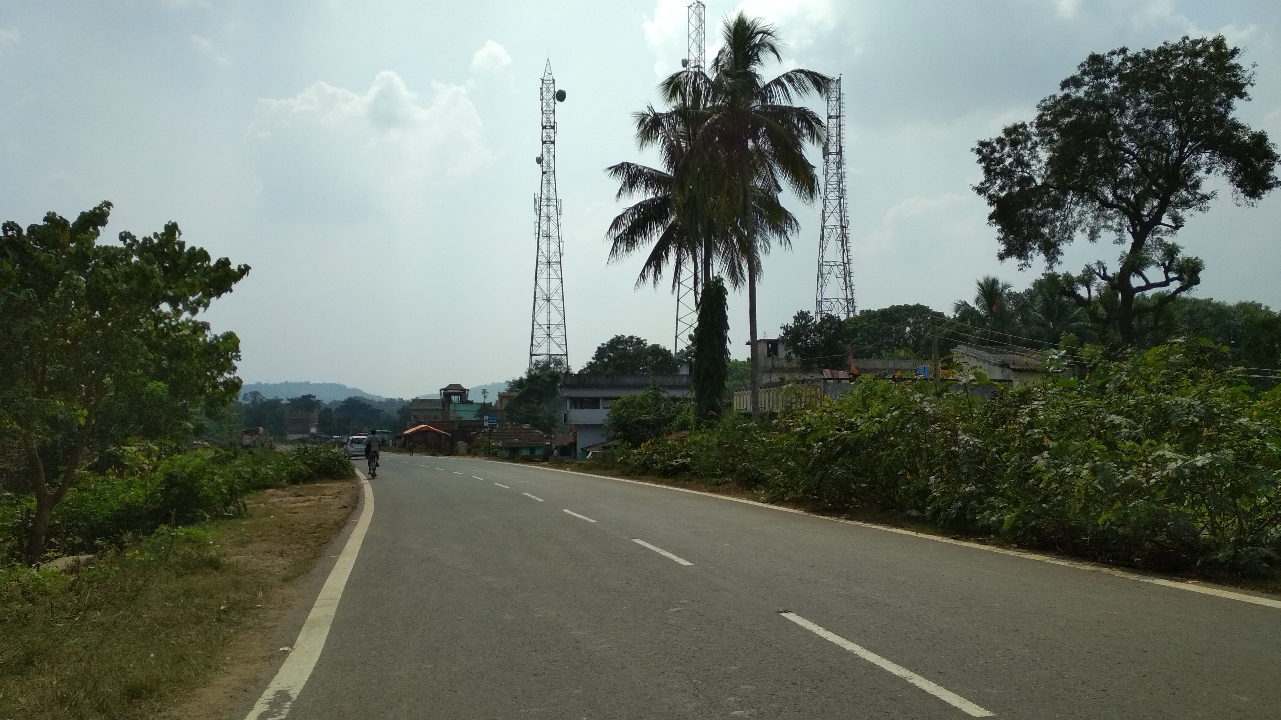 Gopikandar Block